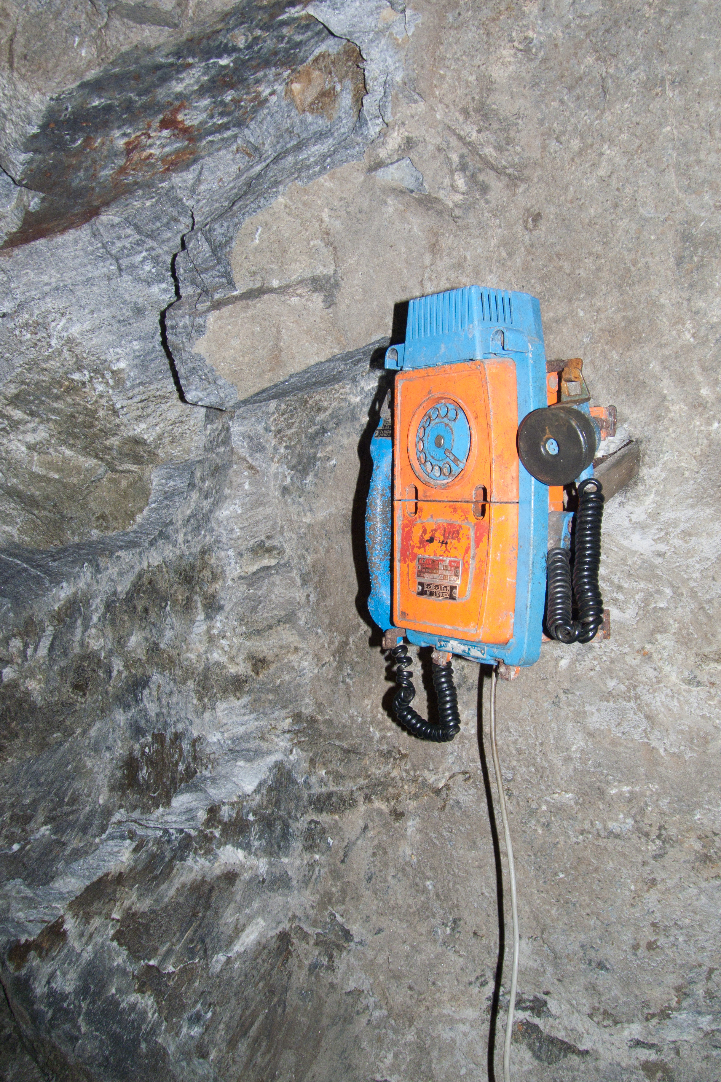 Graphite mine in the town of Český Krumlov, South Bohemian Region, Czech Republic, phone.